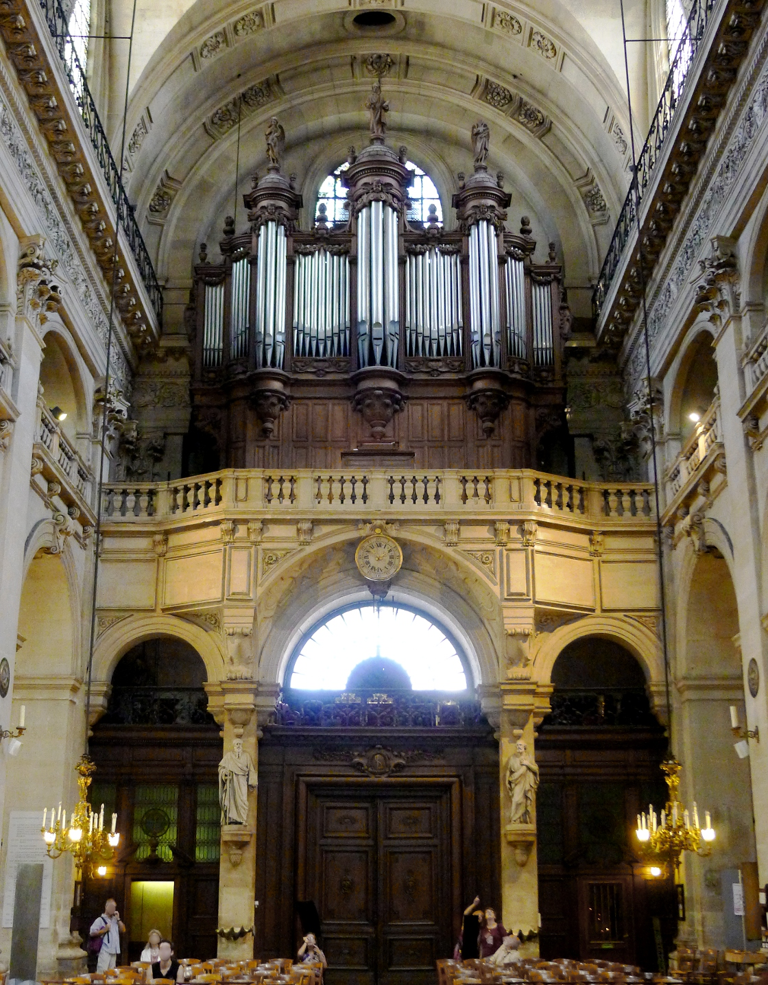 Saint-Paul-Saint-Louis church (pipe organs) - Paris